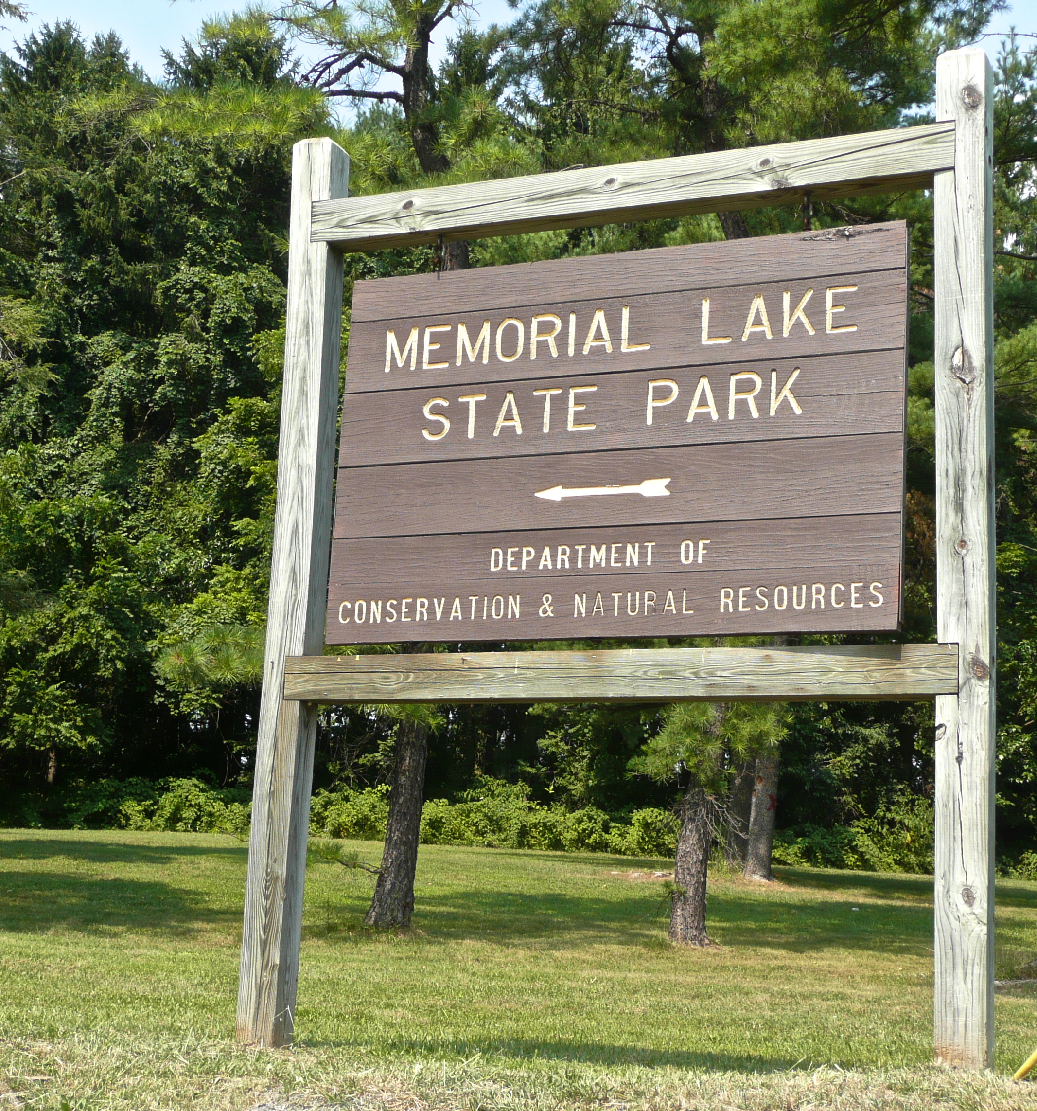 Entrance sign for Memorial Lake State Park, Lebanon County, Pennsylvania.